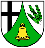 Coat of arms of Kaperich